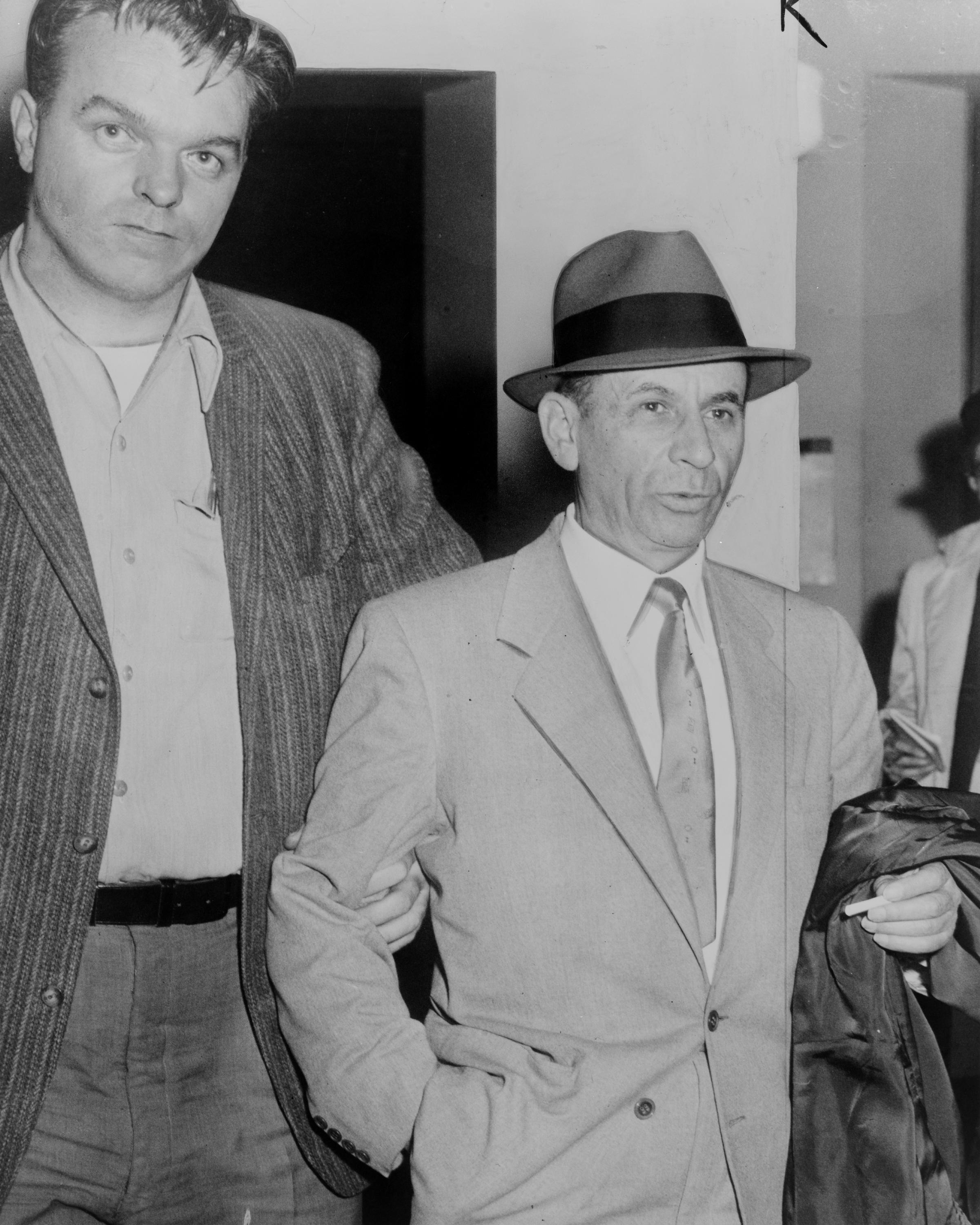 Meyer Lansky being led by detective Jeremiah Mullane for booking on vagrancy charge at 54th Street police station, New York City